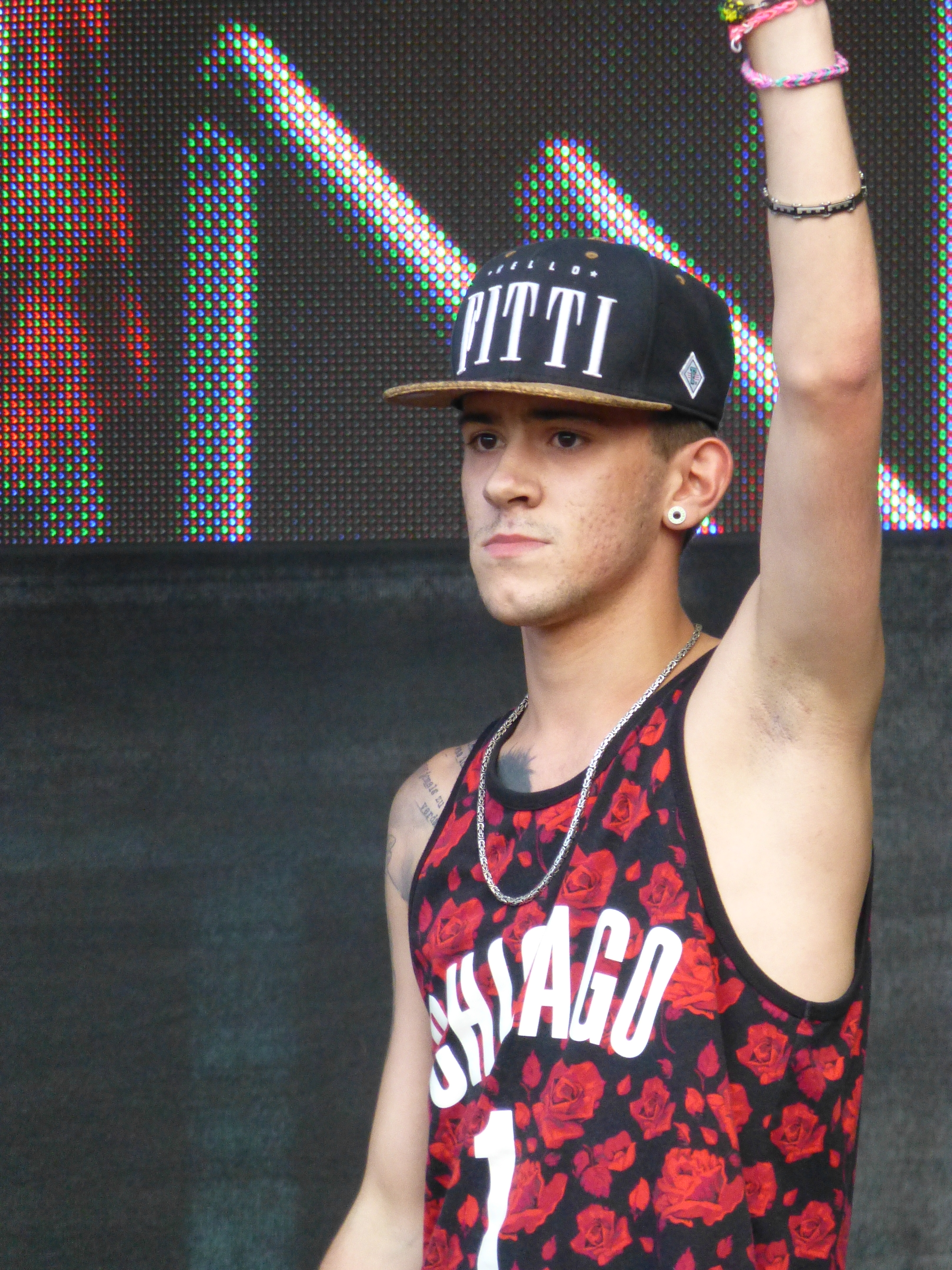 Daniele Negroni on the Radio Salü stage at the Saarspektakel 2014 in Saarbrücken